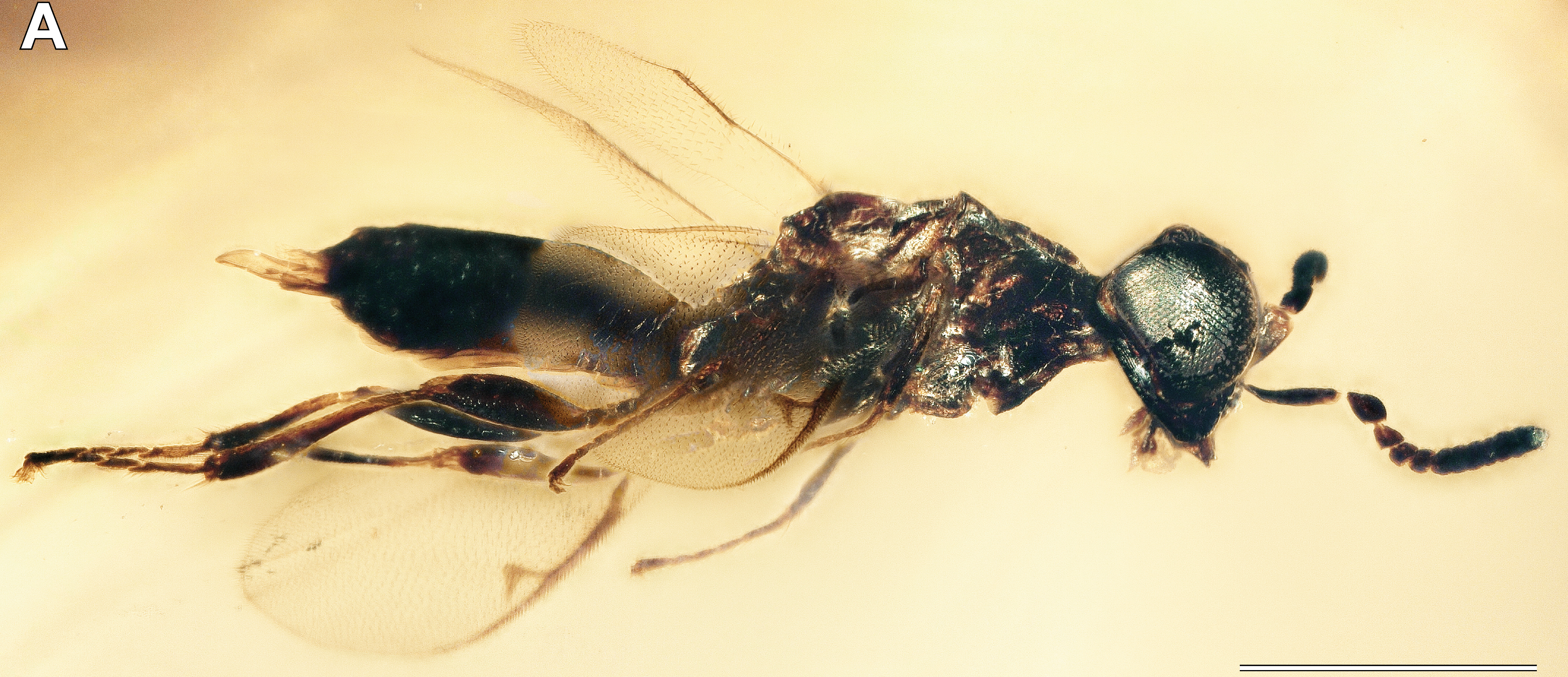 Digital microscopic images of Diversinitus attenboroughi lateral habitus, males. (A) Holotype. Scale bar: 0.5 mm.